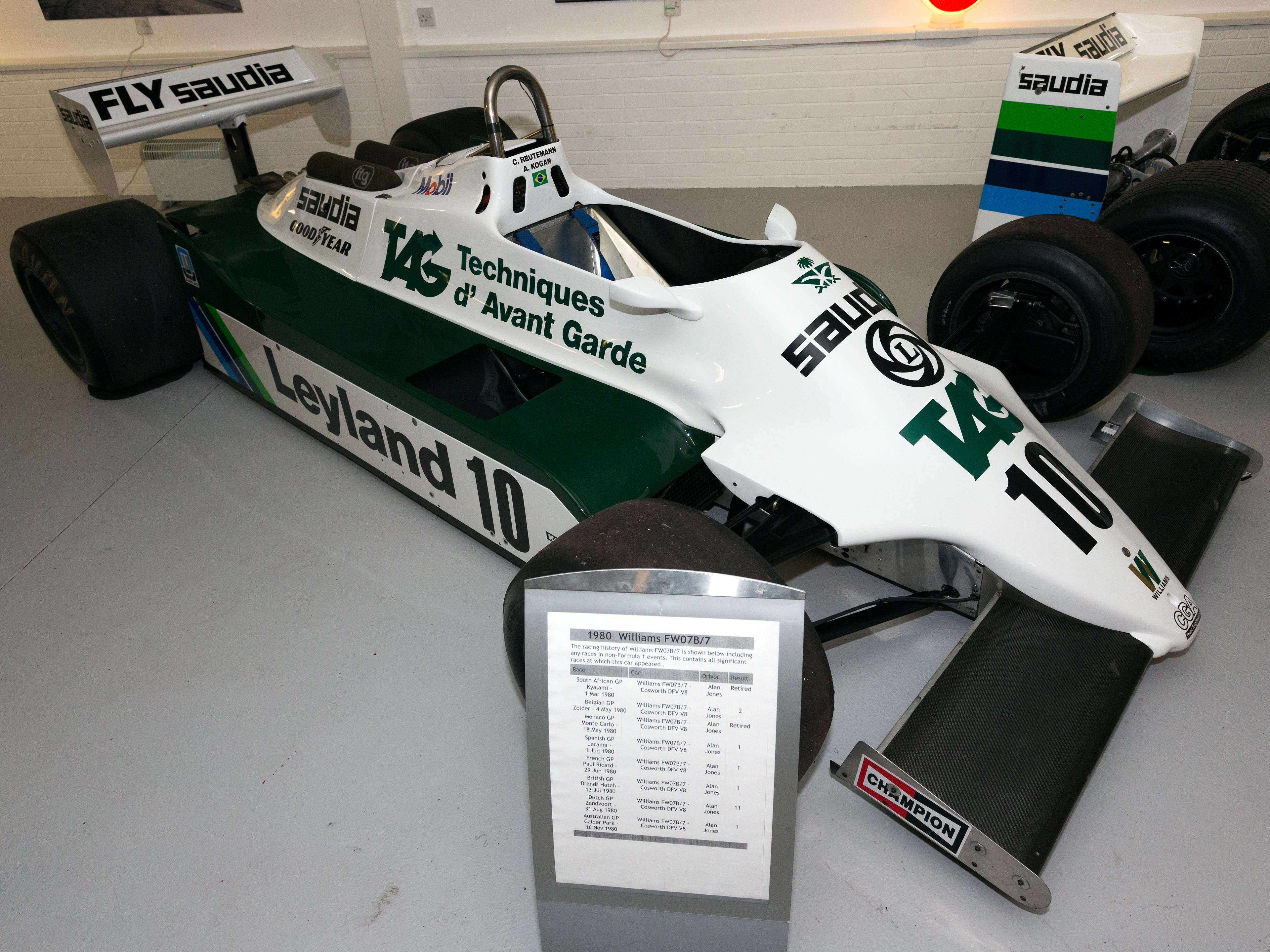 1980 Williams FW07B